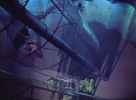 Invaders from Mars - trailer (cropped screenshot)